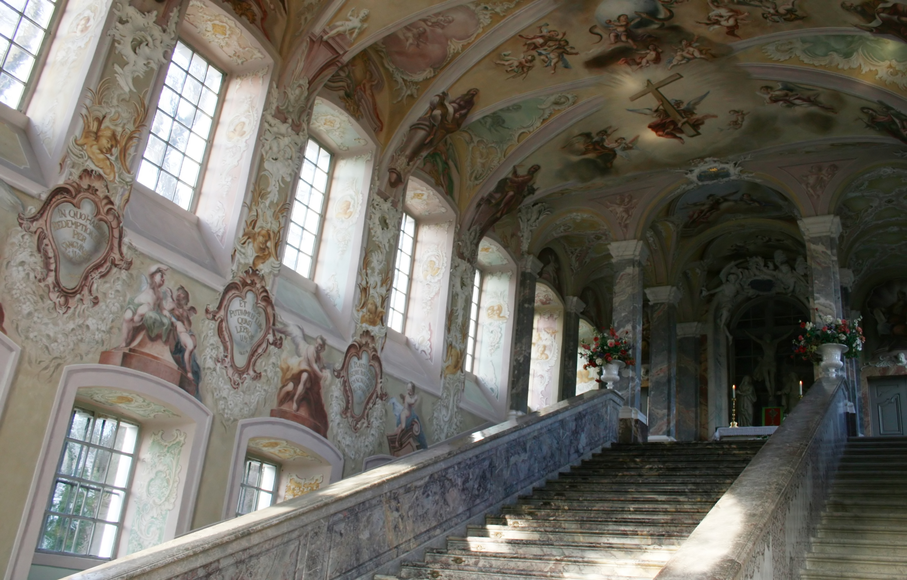 Germany, Bonn: holy steps on Kreuzberg (Cross Mountain), interior view